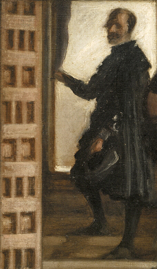 Detail of Las Meninas showing Don José Nieto Velázquez (the figure standing in the dorway)